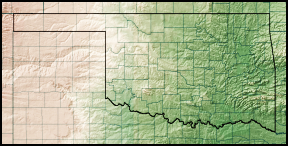 Public domain relief map modified with Oklahoma outlined. Category:Oklahoma maps